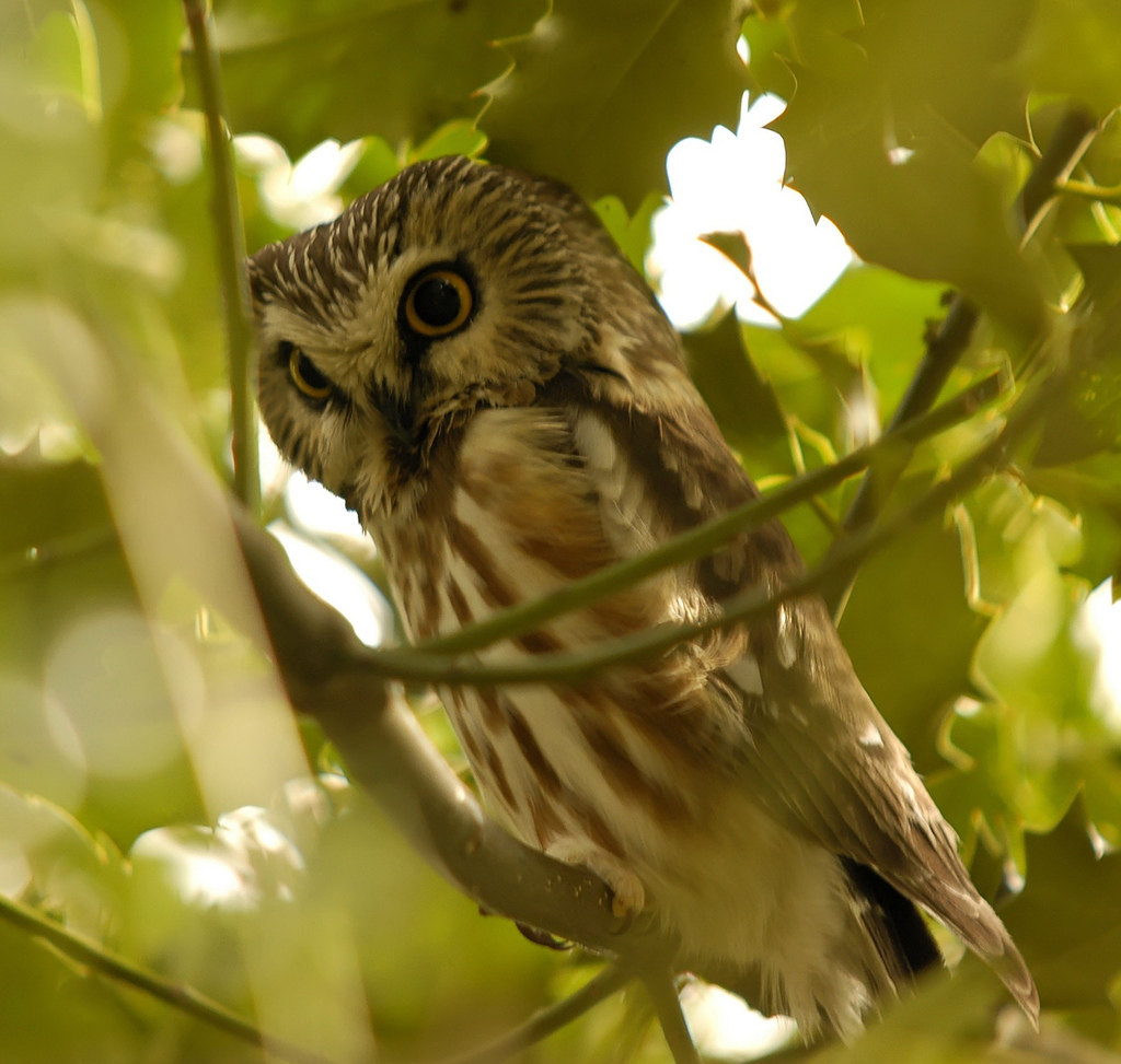 Northern Saw-whet Owl Aegolius acadicus at Reifel Migratory Bird Sanctuary, Delta, BC, Canada.